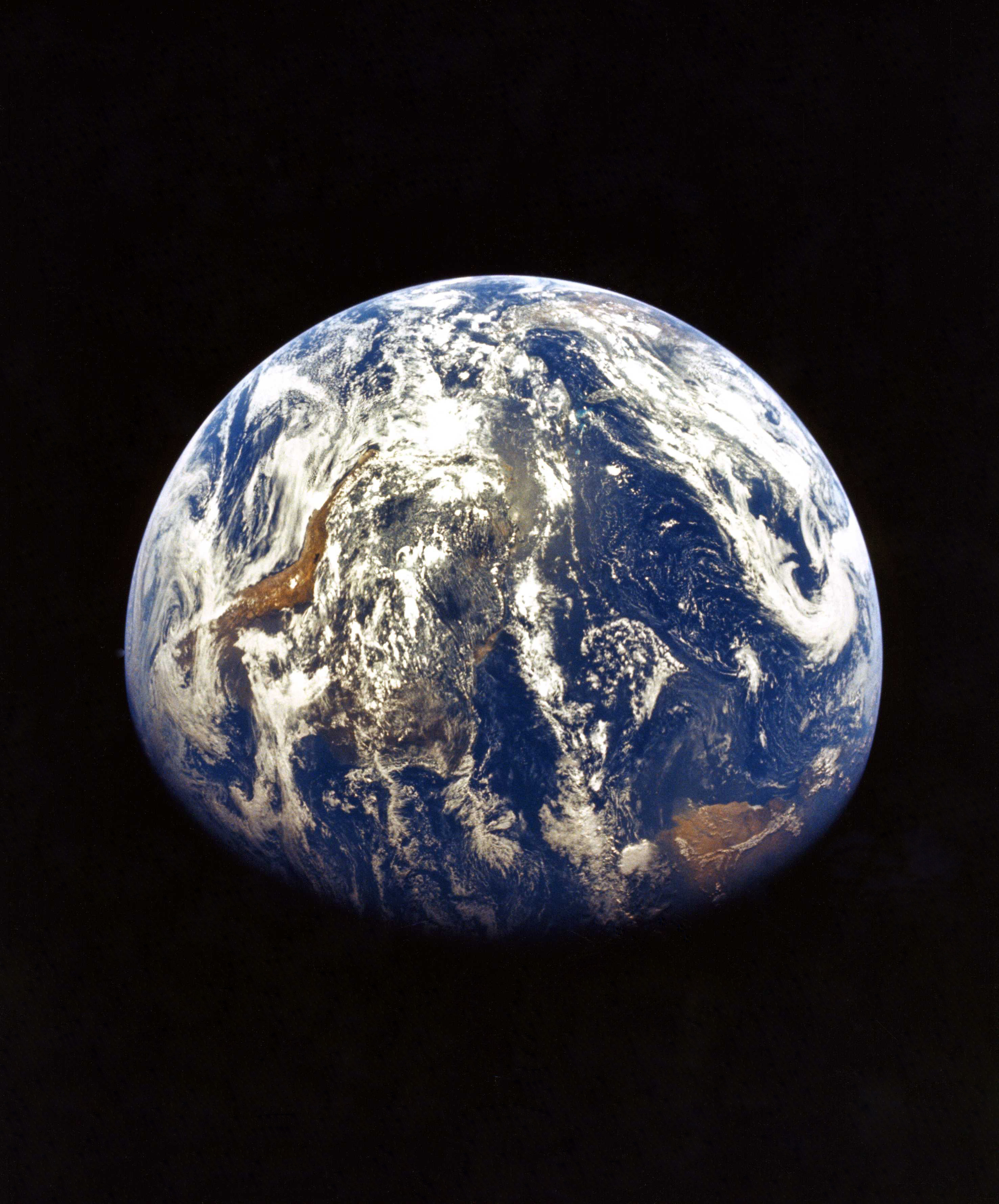 AS15-91-12343 (26 July 1971) --- This view of Earth was photographed by the Apollo 15 crewmen as they sped toward the fourth lunar landing. The spacecraft was between 25,000 and 30,000 nautical miles from Earth when this photo was made. The United States (note Florida), Central America and part of Canada can be seen at the left side of the picture, with South America at lower center. Spain and the northwest part of Africa can be seen at right. The Bahamas Banks, unique geological feature, can be seen (different shade of blue) east of Florida. Also note large North Atlantic storm front moving over Greenland in upper center.